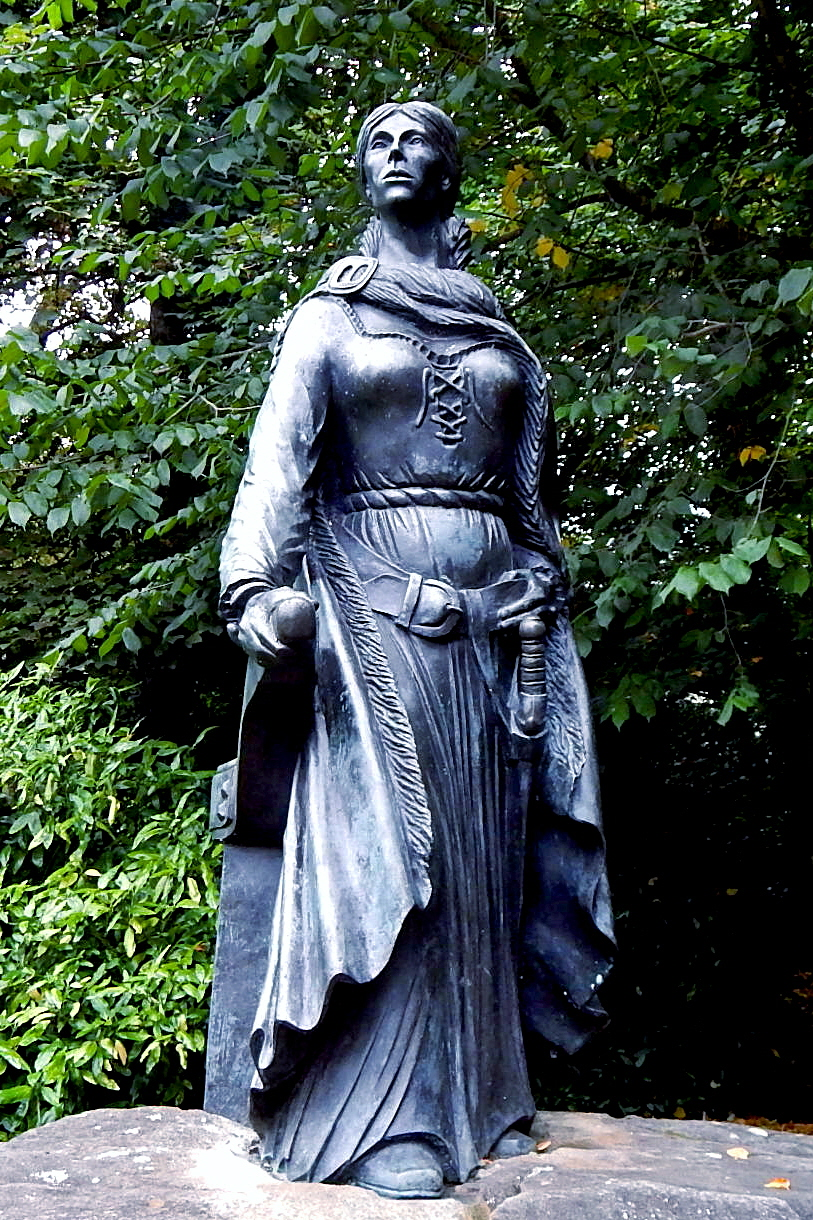 Statue of Grainne Mhaol Ni Mhaille (Grace O'Malley, 1530-1603), the Irish Pirate, located at Westport House, Co. Mayo, Ireland